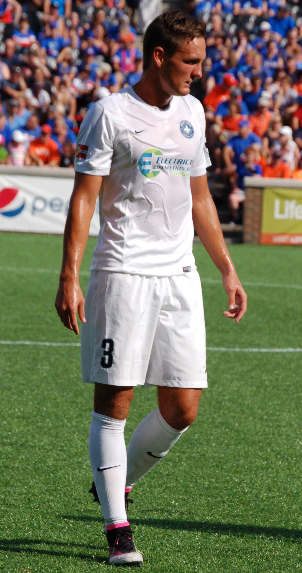 Sam Fink Taken during a USL regular season match between FC Cincinnati and Saint Louis FC at Nippert Stadium in Cincinnati, USA on September 5, 2016.